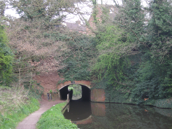 Cookley Tunnel, western portal